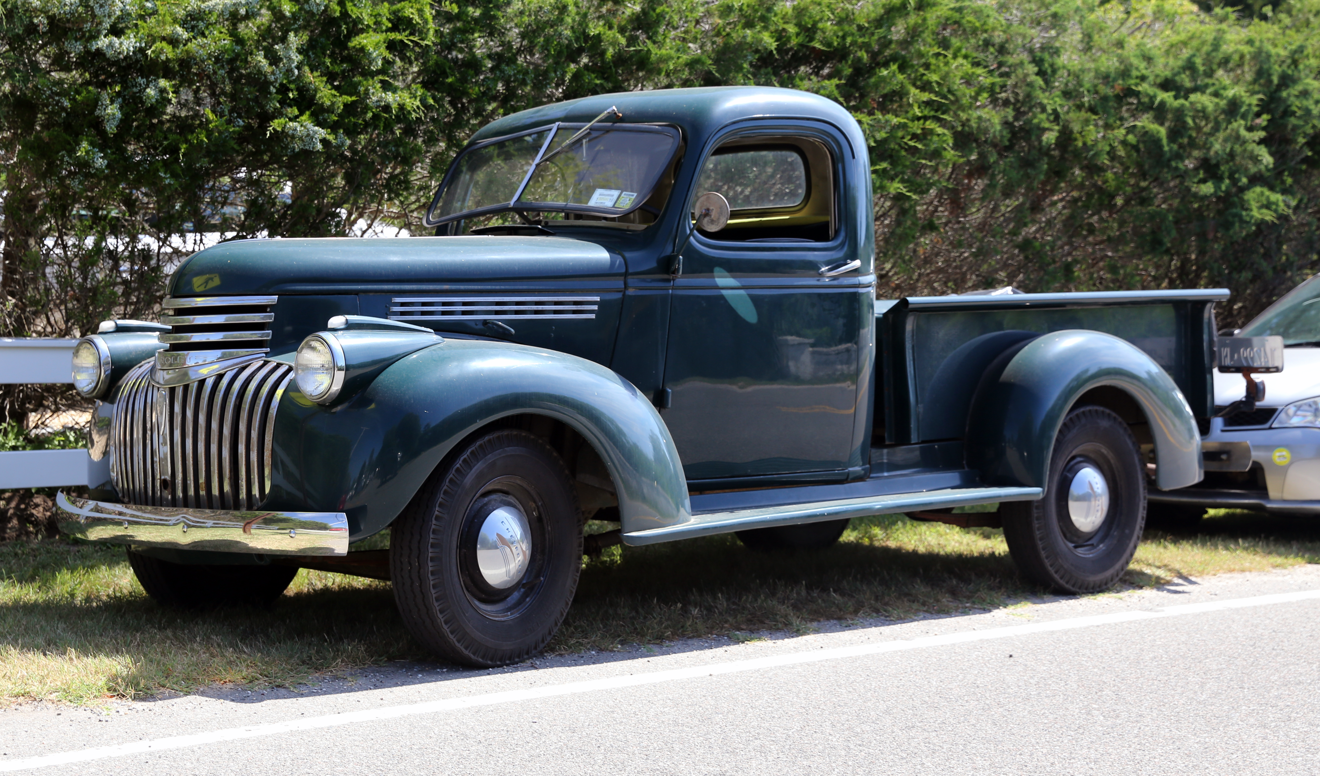 A 1946 Chevrolet DP ½-ton truck.